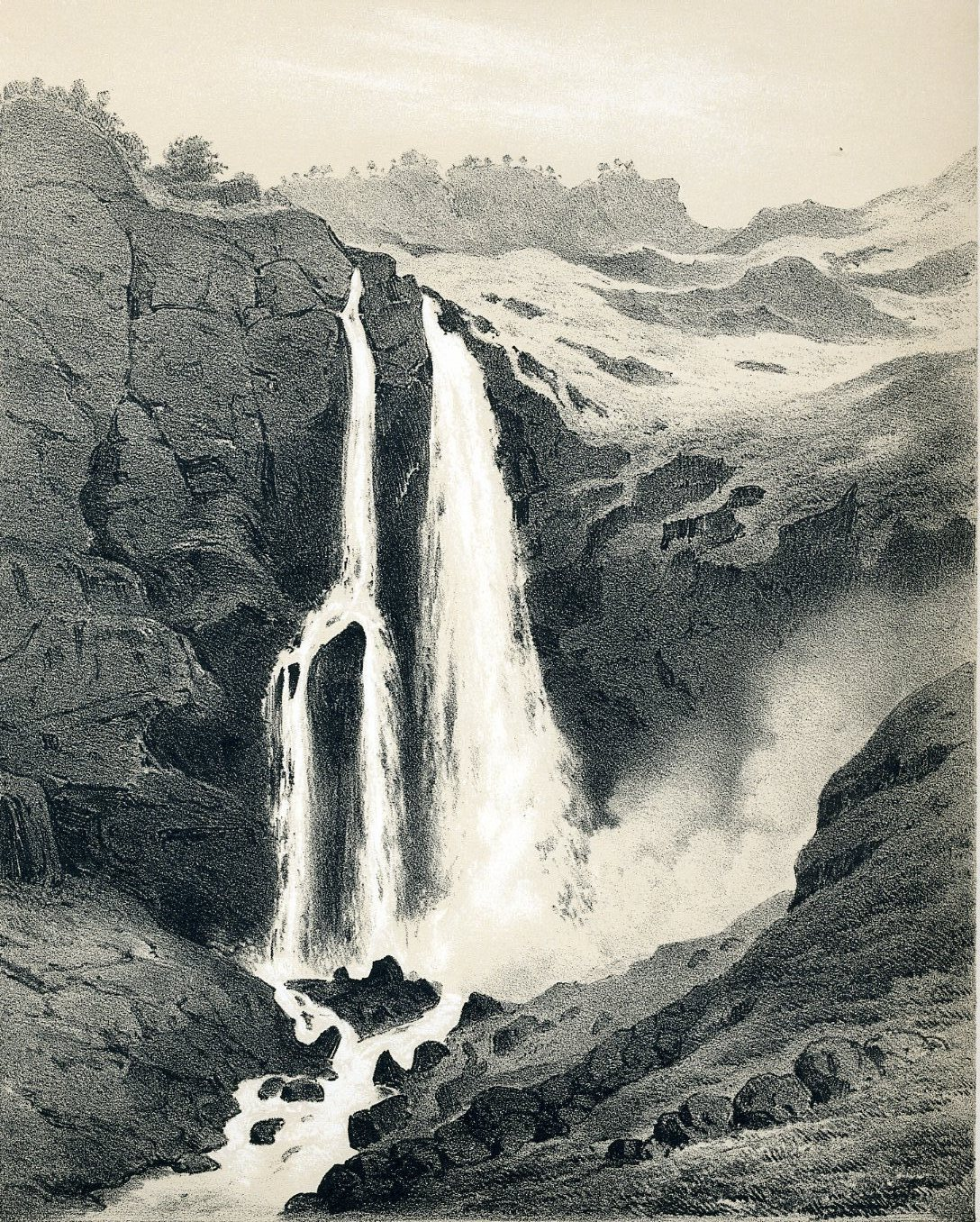 Pictures from the Work "Norge fremstillet i billeder" 1848 by Chr. Tønsberg. Feigumfossen, Luster municipality, Sogn og fjordane county, Norway.